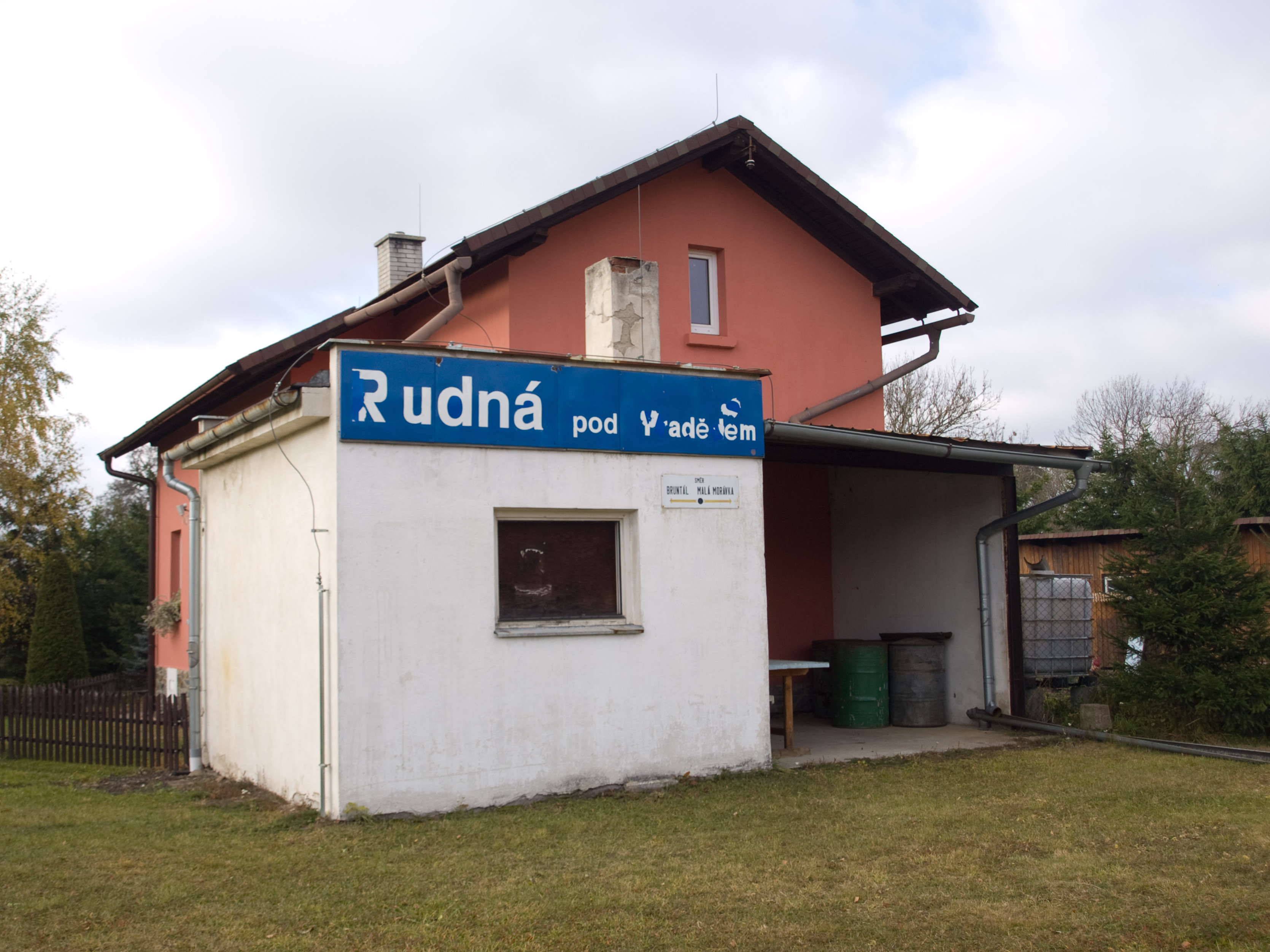 Train stop Rudná pod Pradědem, railway track n. 312 Bruntál – Světlá Hora – Malá Morávka